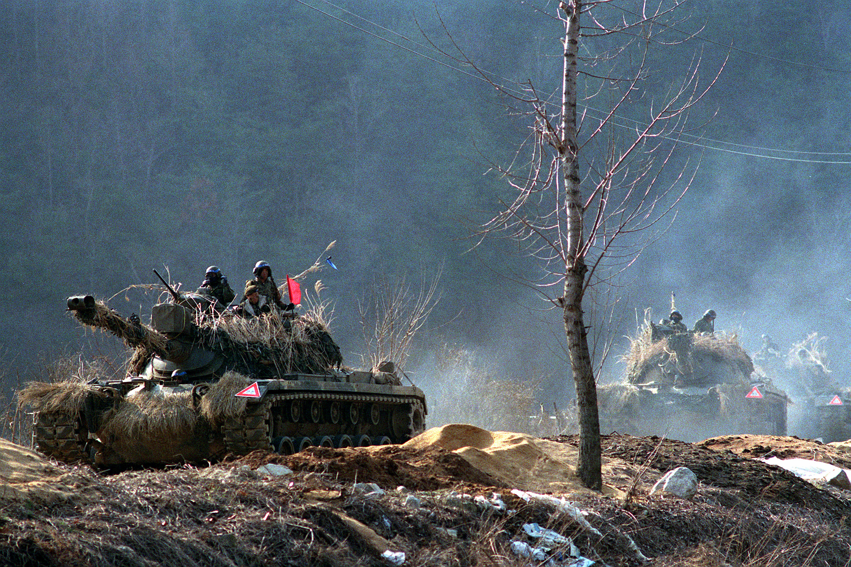 A column of South Korean M-48 main battle tanks advances along a road during the combined South Korean/U.S. exercise Team Spirit '90.